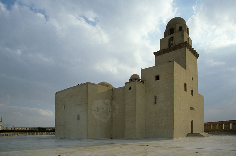 Giyushi Mosque at the west side of the Moqattam hill, Cairo, Egypt